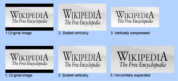 Increasing the resolution of 2.35:1 widescreen video on a DVD disk by eliminating wasted pixels due to letterboxing. This is normally possible only with a front projector. 1) While anamorphically-enhanced DVD-Video contains no wasted resolution for 16:9 (1.78:1) videos, the use of black bars or mattes is necessary for wider formats such as 2.35:1 movies which are too wide to fit into the 16:9 frame. The display device would display these black bars as if they were a part of the video, wasting some of the device's native resolution. 2) To overcome the wasted resolution, the video is scaled (stretched) vertically, eliminating the black bars. This vertical stretch, via pixel interpolation, is performed by a video processor which is either a built-in component of the projector or an external model such as a Home theater PC. The image, however, becomes distorted in the process and needs to be corrected. 3) To restore the original aspect ratio, an anamorphic lens is placed in the light path of the projected image. The lens uses either vertical compression (VC) or horizontal expansion (HE). Since the lens works optically, the increase in vertical resolution is preserved. In addition, the luminance is altered: vertical compression increases the brightness of the video, while horizontal expansion decreases it.